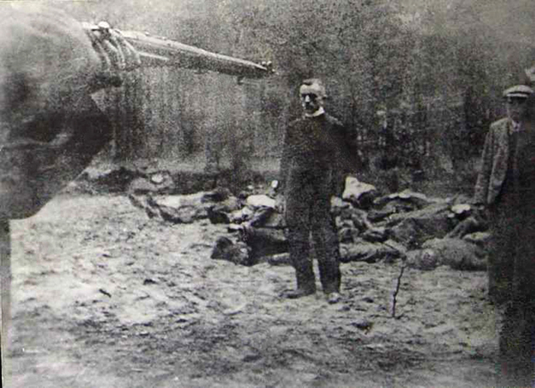 Mass execution of Poles in Piaśnica (Groß Piasnitz) in the Darzlubska Wilderness (Polish Pomerania) conducted by nazi Germans. The picture was taken by Waldemar Engler - volksdeutscher from Wejherowo and member of the SS (he was photographer in civilian life) Prints of photos that he made in Piaśnica were stolen by his Polish workers.